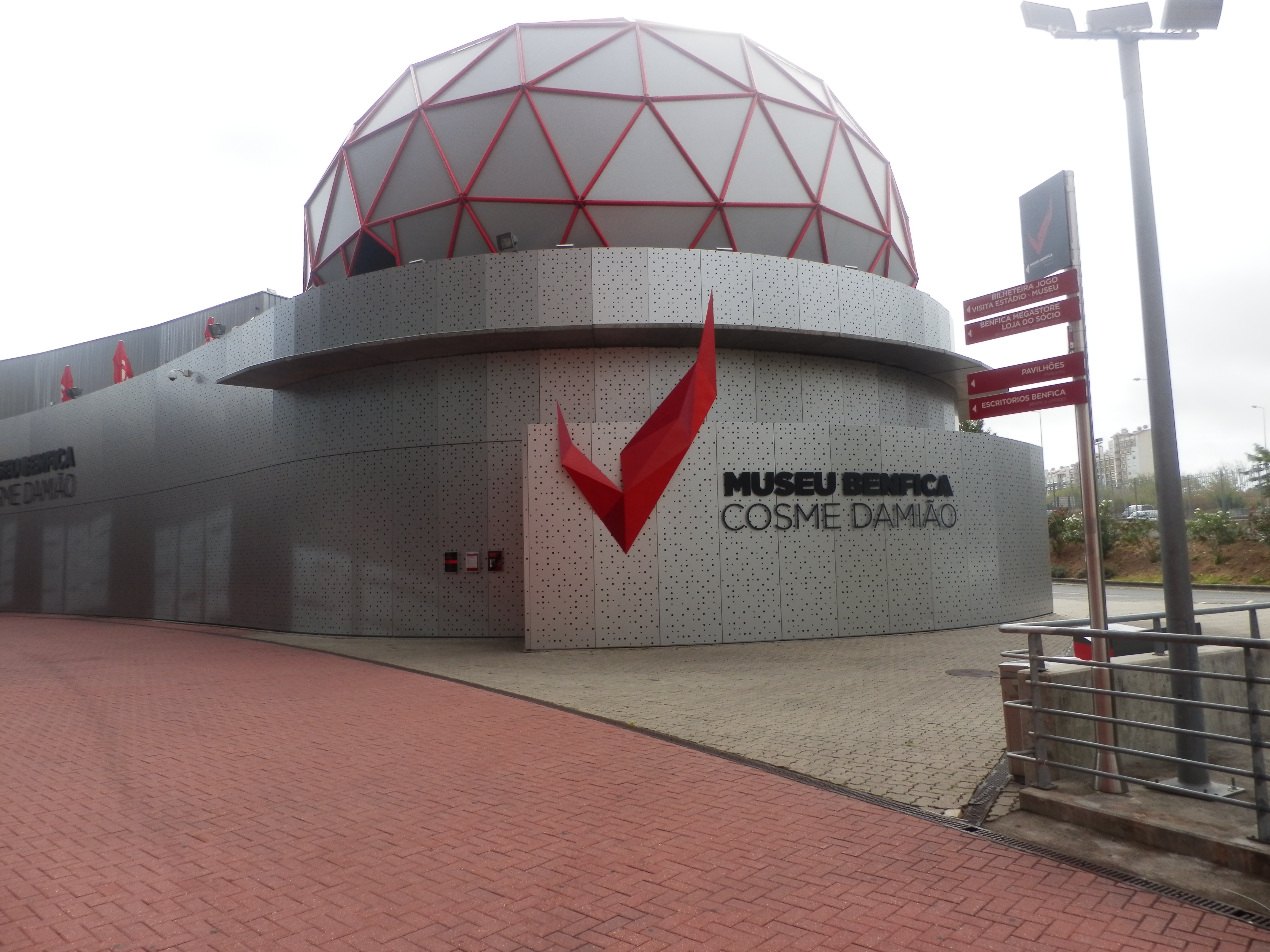 Entrance and dome to Museum Cosme Damião